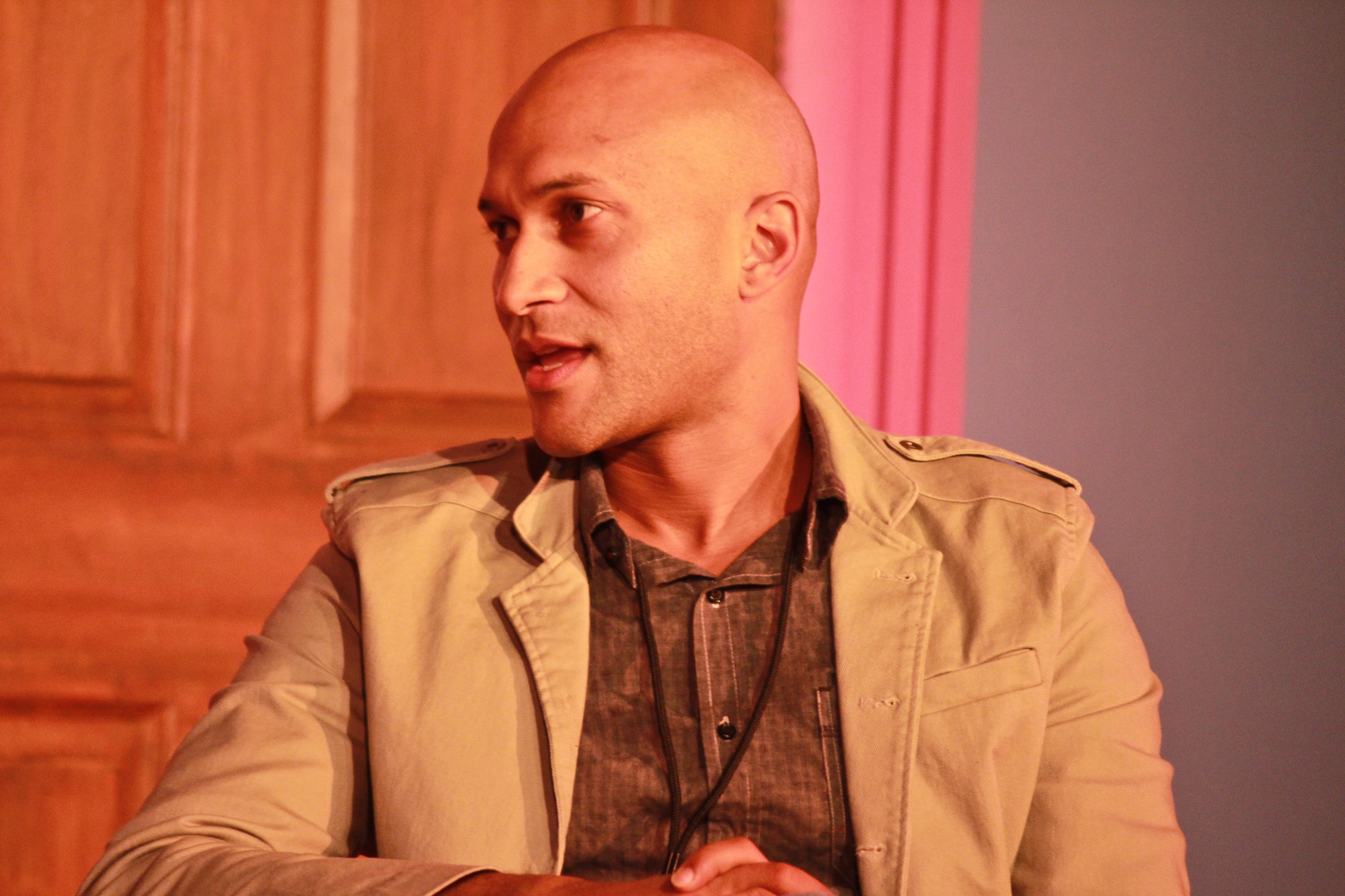 Improv Nerd w/Jimmy Carrane & Keegan Michael Key @ DIF 2012